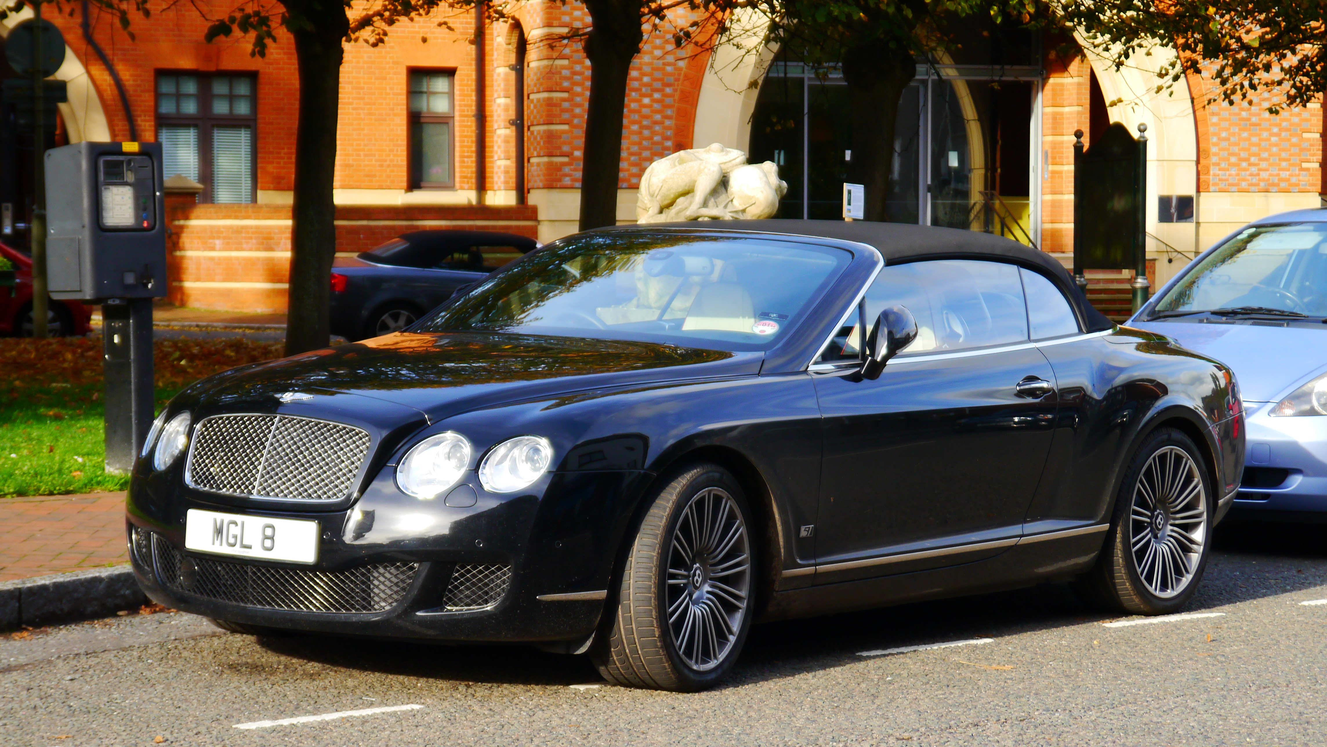 2010 Bentley Continental GTC Speed Series 51.